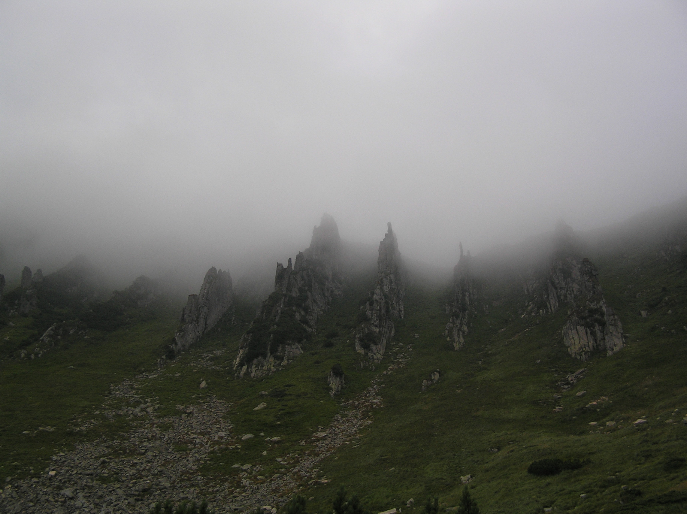 A range of peaks in Karpathian mountains